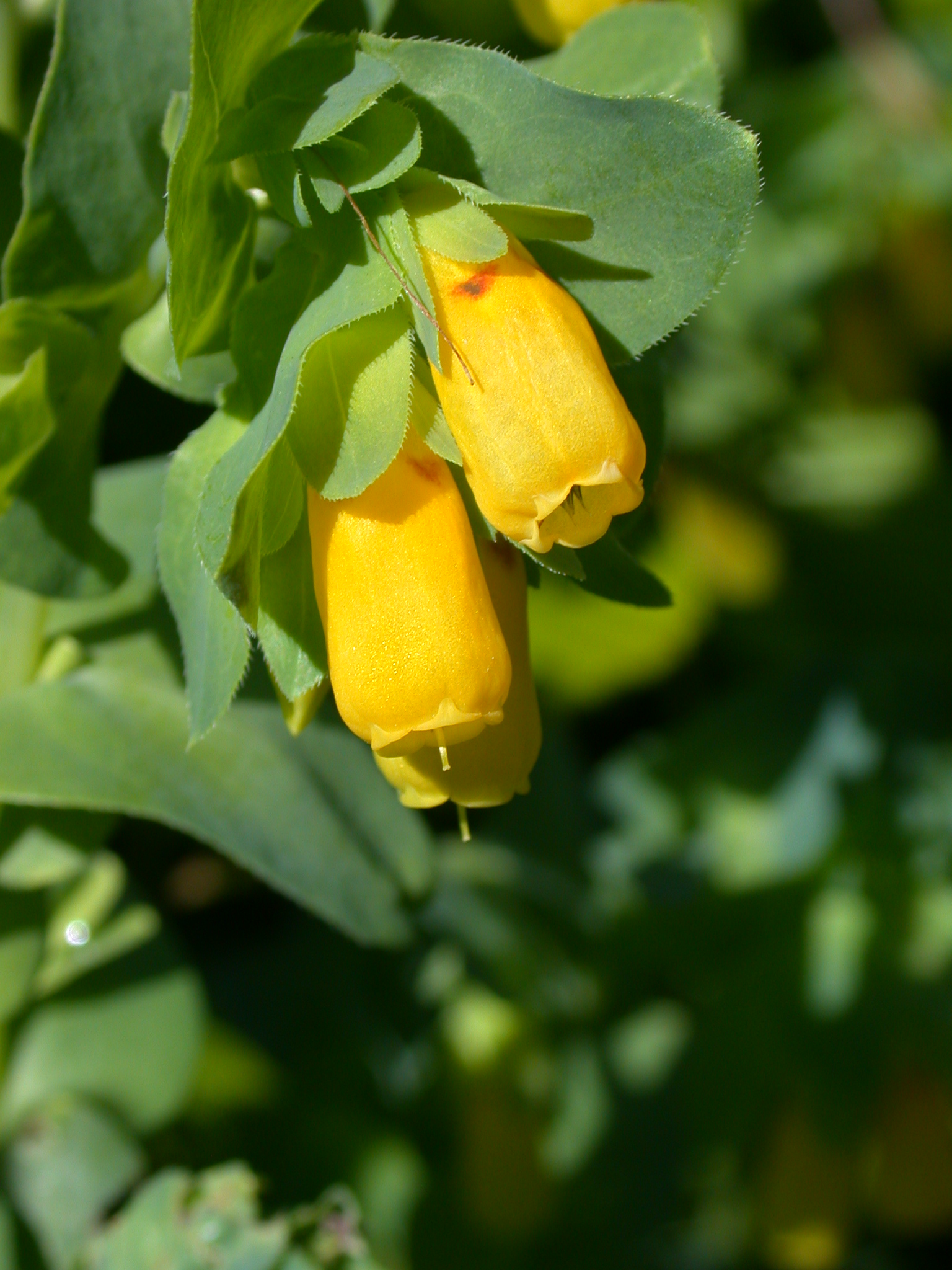 Cerinthe glabra (Boraginaceae), Botanical Garden Bern, Switzerland